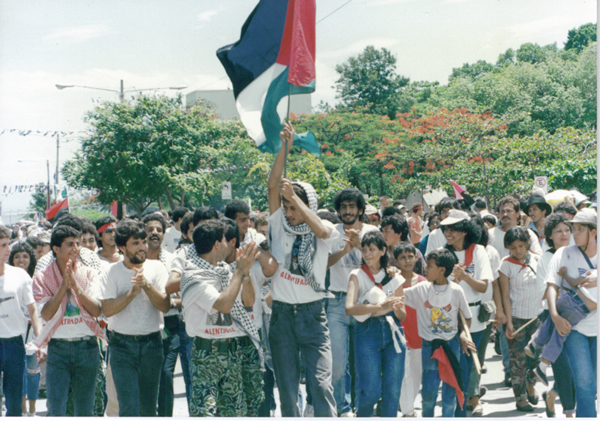 Palestinians marching with Palestine and FSLN flags in 1989